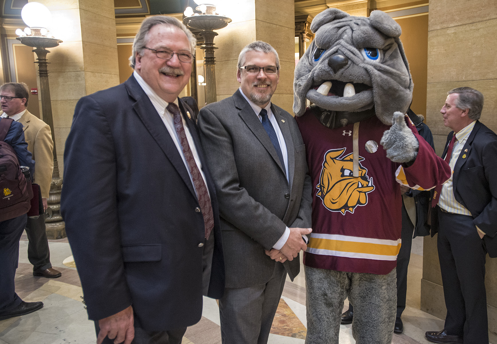 Senator Erik Simonson with Champ, the UMD Bulldog on UMD Lobby Day at the Capitol.